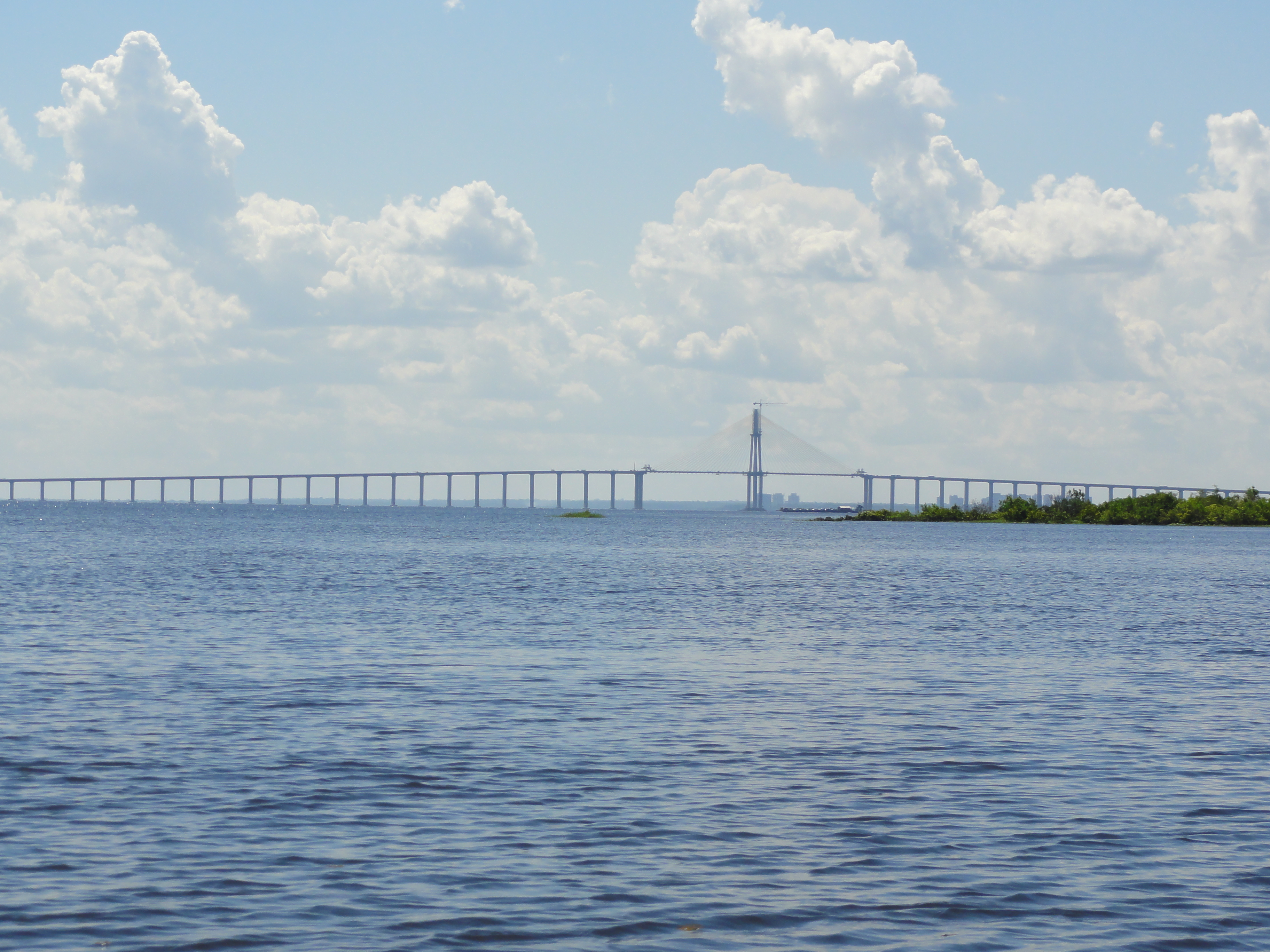 Manaus Ponte